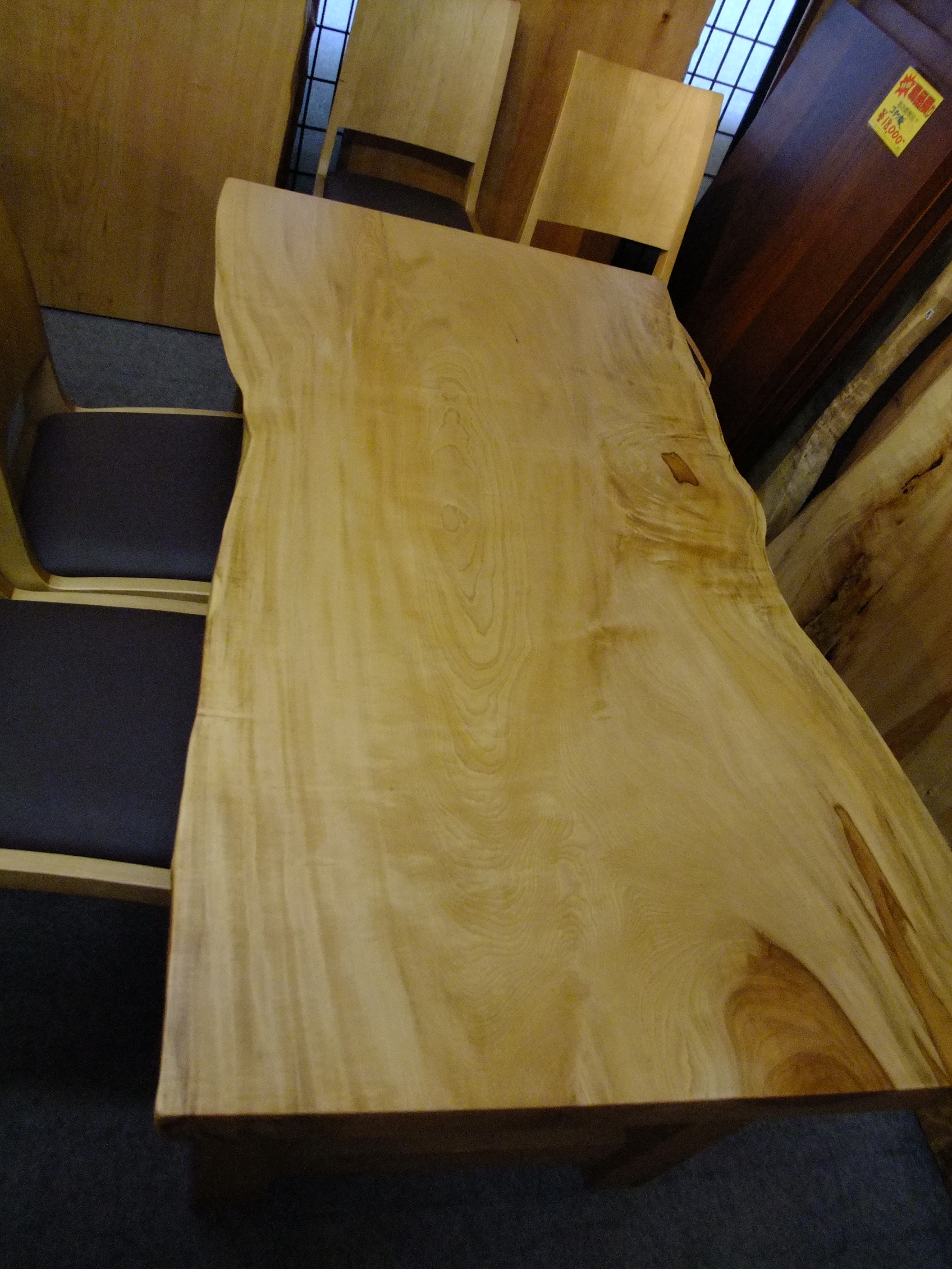 Aesculus turbinata table